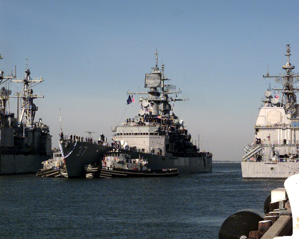 The guided missile cruiser USS South Carolina (CGN 37) is guided pierside by the large harbor tug USS Tontogany (YTB 821) (right). South Carolina returned from a six-month deployment to the Persian Gulf in support of Operation Southern Watch. U.S. Navy photo by Journalist 1st Class David W. Crenshaw.